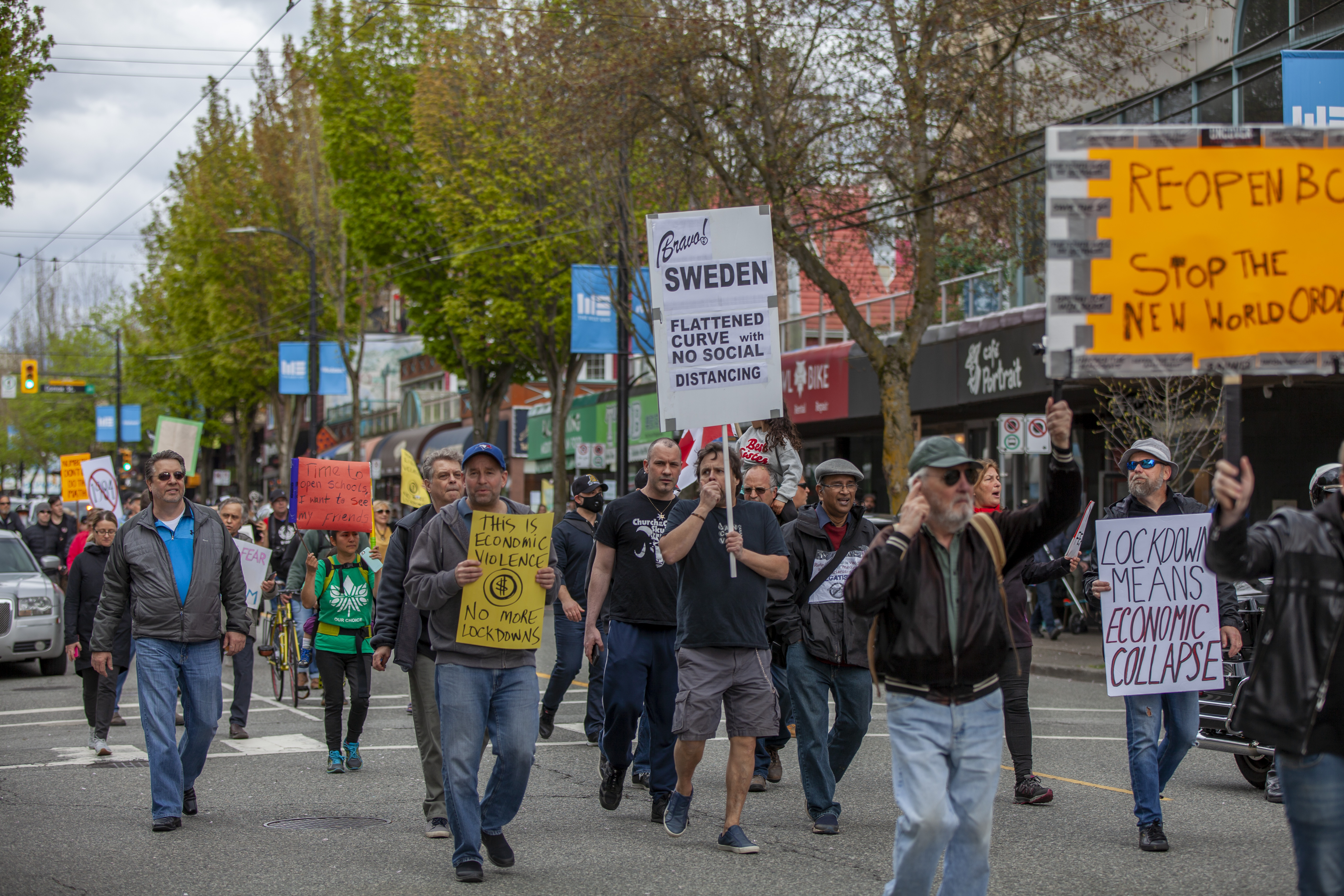 COVID-19 Vancouver's largest protest, April 26th 2020